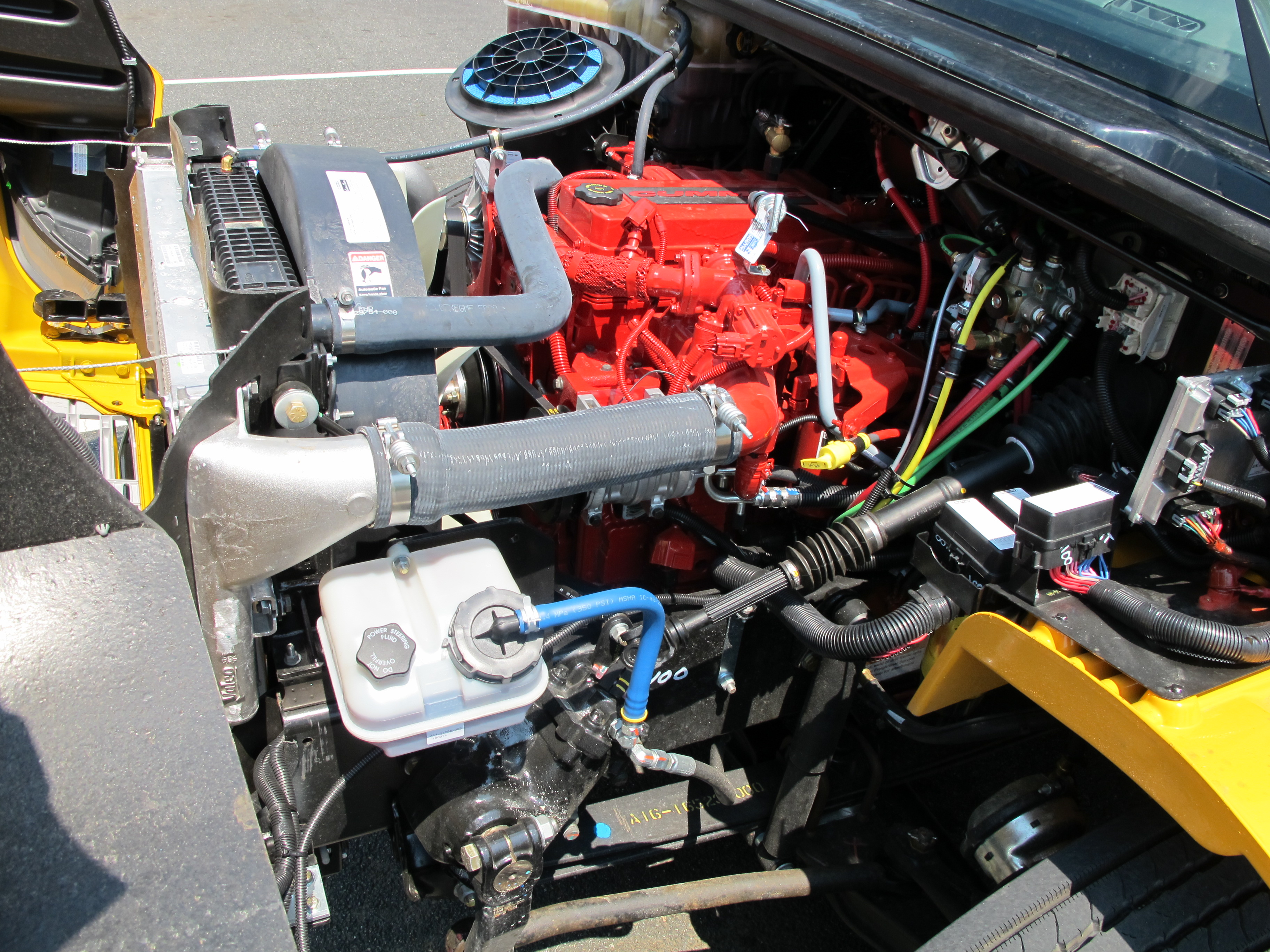 A photograph of the engine compartment of a Thomas Saf-T-Liner C2 bus (the Freightliner M2 106 is largely similar). The bus is equipped with a 6.7L Cummins ISB inline-6 diesel engine.